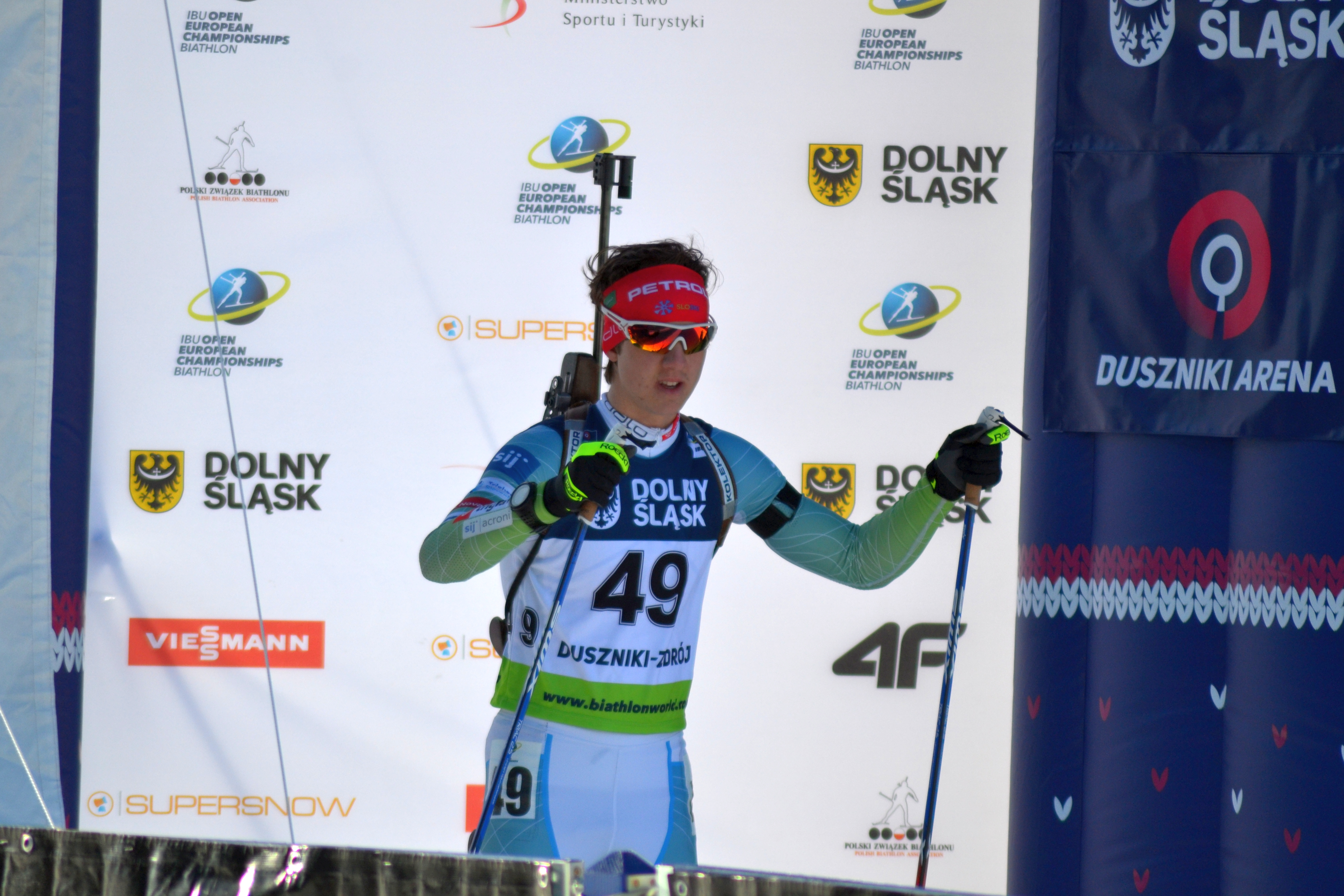 Open European Championships Biathlon 2017, Sprint Men's race, held on January 27th.